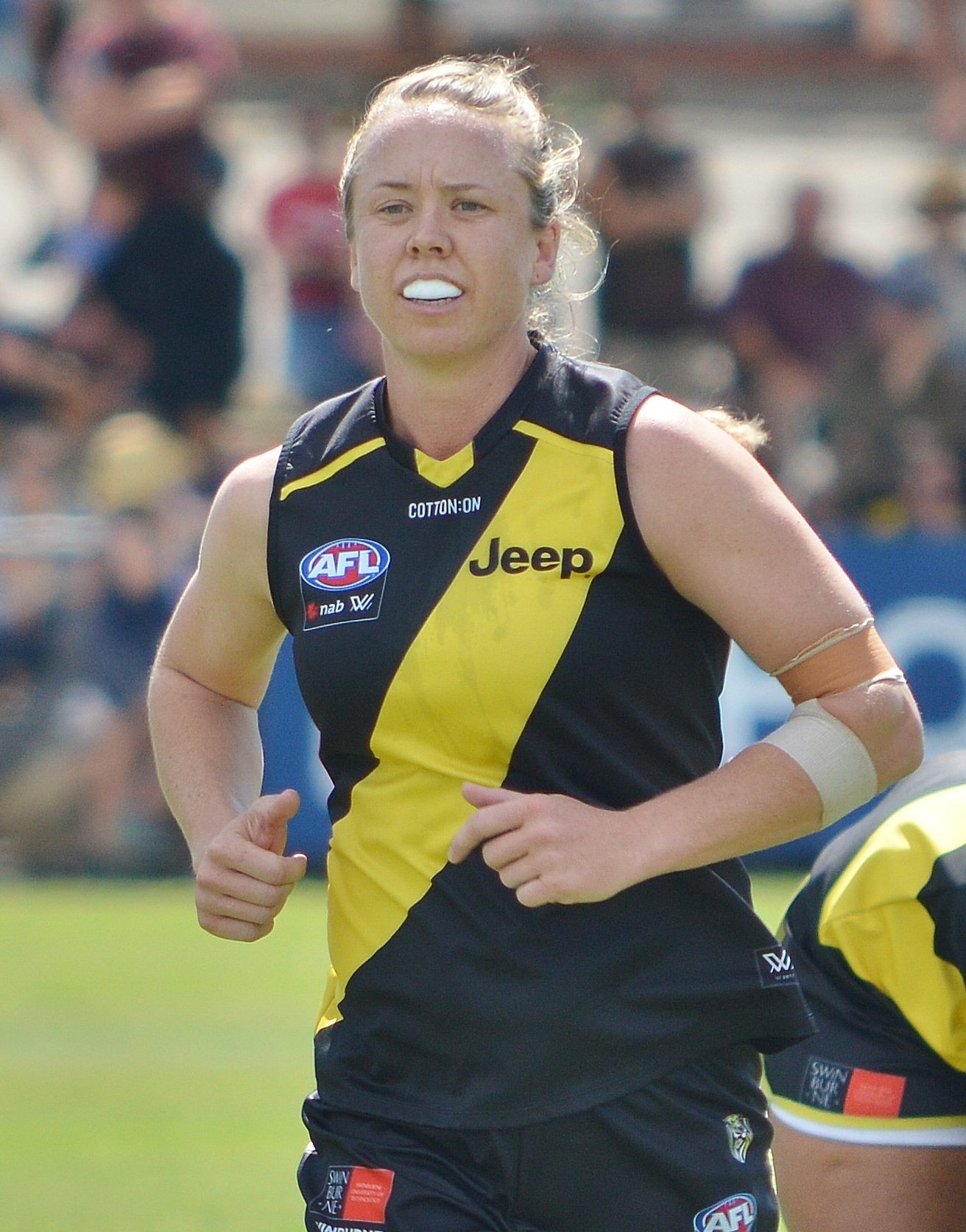 Courtney Wakefield with Richmond in the round 4 2020 AFLW match against Geelong at Queen Elizabeth Oval in Bendigo.